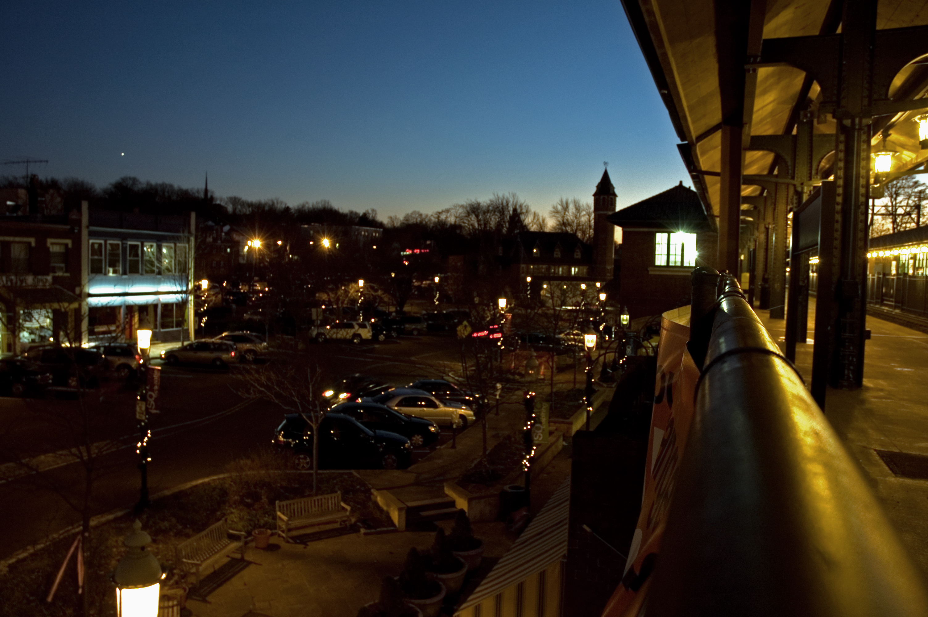 South Orange village in New Jersey, from train station platform, looking south toward Maplewood. Photography by Leif Knutsen, December 23, 2006.